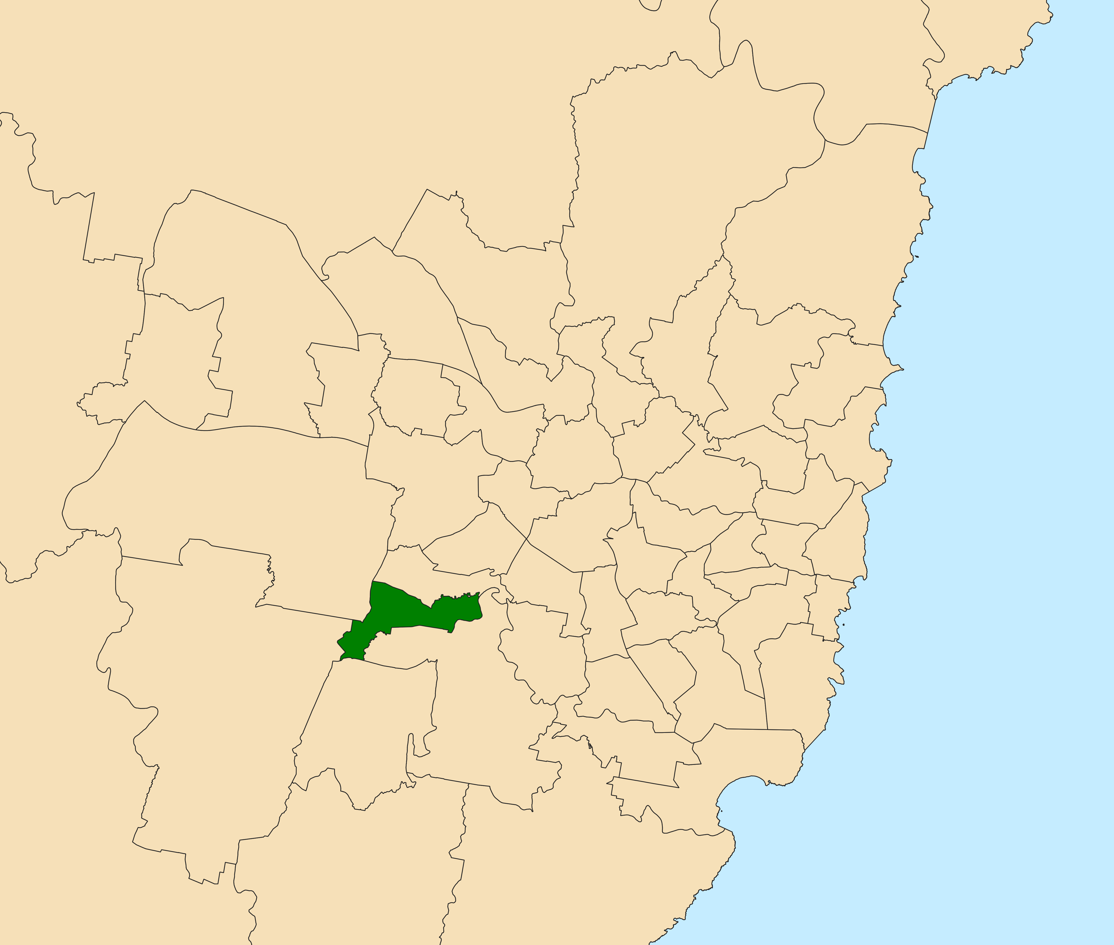 Location of the state electoral district of Liverpool (dark green) in the metropolitan Sydney area as of the 2019 New South Wales state election. Incorporates or developed using Administrative Boundaries ©PSMA Australia Limited licensed by the Commonwealth of Australia under Creative Commons Attribution 4.0 International licence (CC BY 4.0).